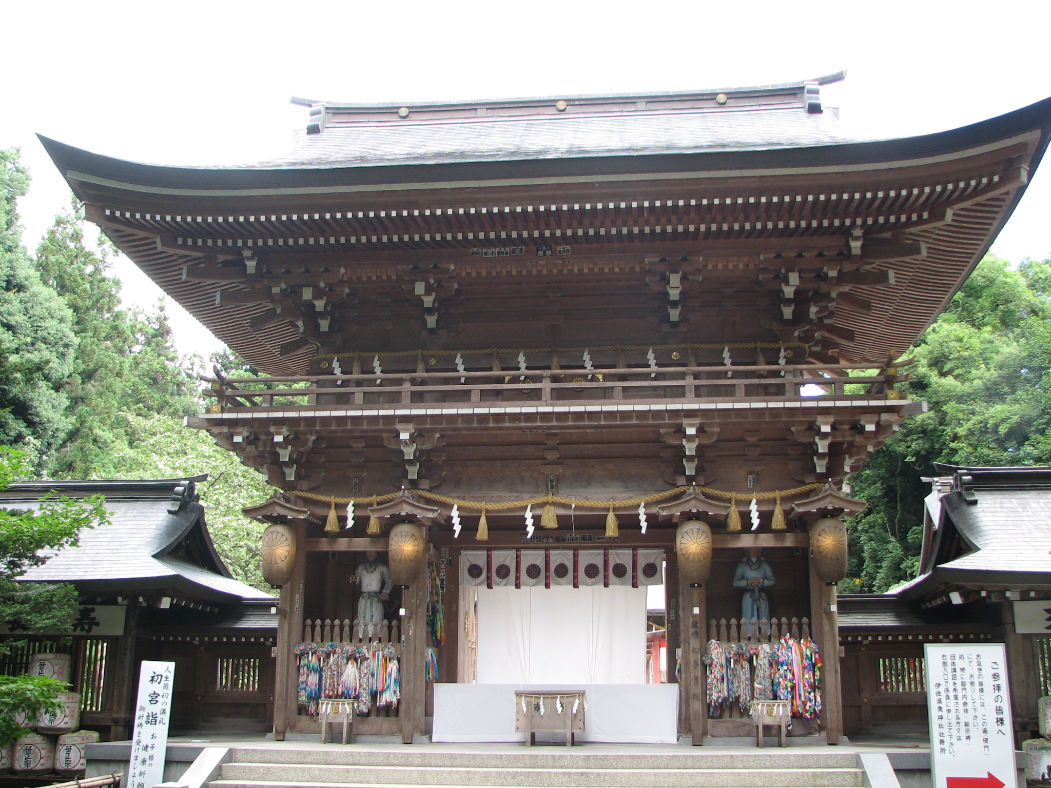 the rōmon (gate) of Isasumi Shrine, Aizu-Misato, Fukushima, Japan 伊佐須美神社楼門（福島県大沼郡会津美里町）